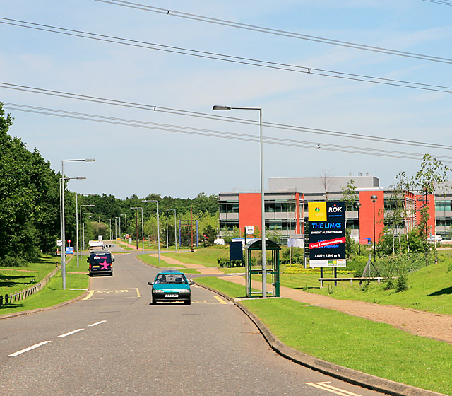 Looking past 4400 Parkway, Solent Business Park The Links, the entrance to which is in foreground right, is a group of offices built by Rok plc. However, the red and grey building seen in the background is the National Air Traffic Control Centre.